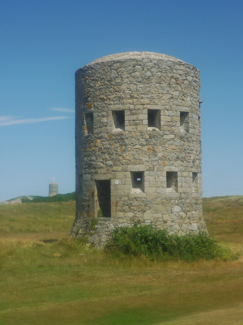 L'Ancresse Loophole Tower no. 6, Guernsey: One of fifteen loophole towers built in Guernsey in the late 1770s.